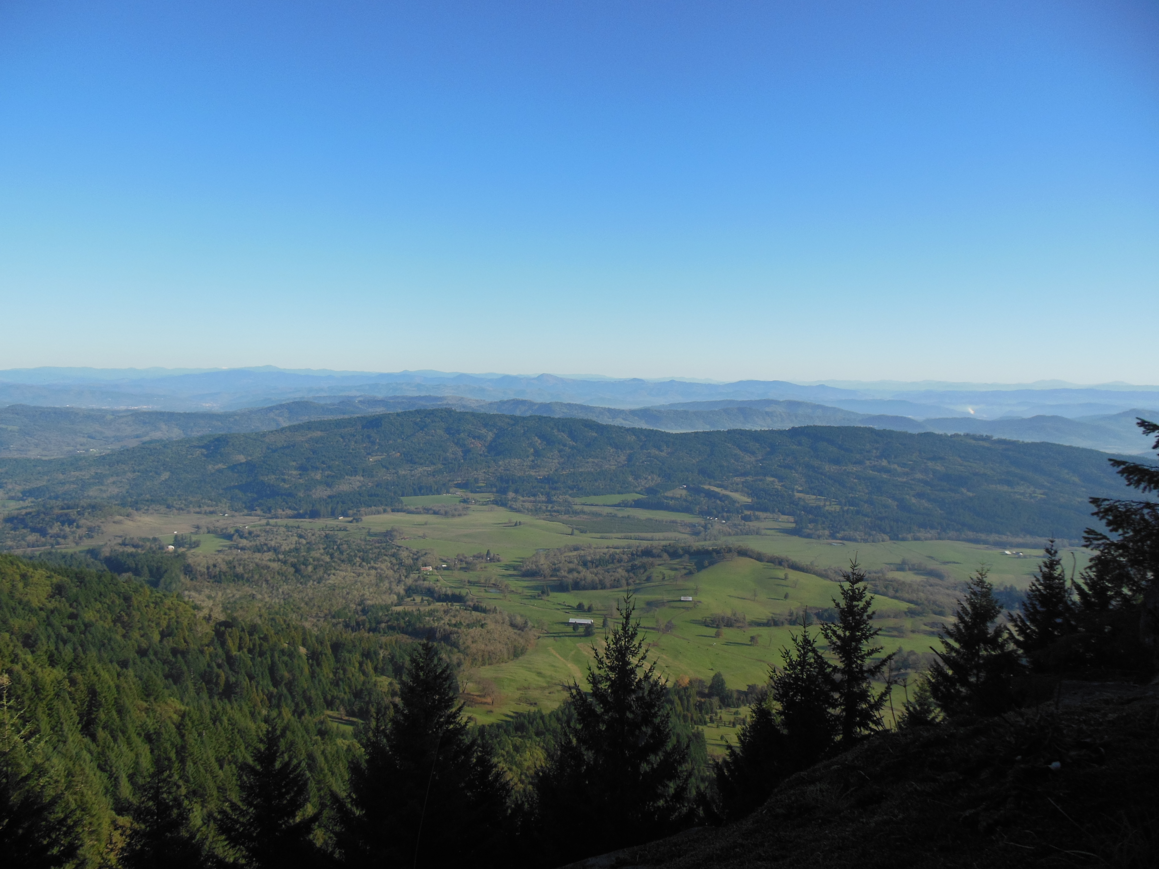 View east from the Callahans rock climbing area, west of Roseburg, in Douglas County, Oregon, USA